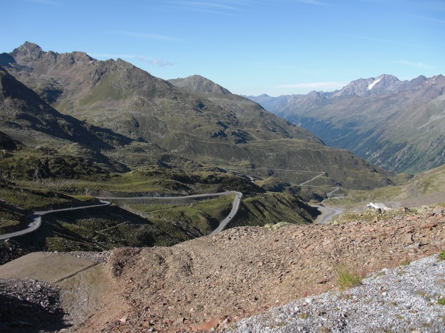 Kaunertaler Gletscherstraße: View from the streets endpoint down the course along the Kaunertal valley.